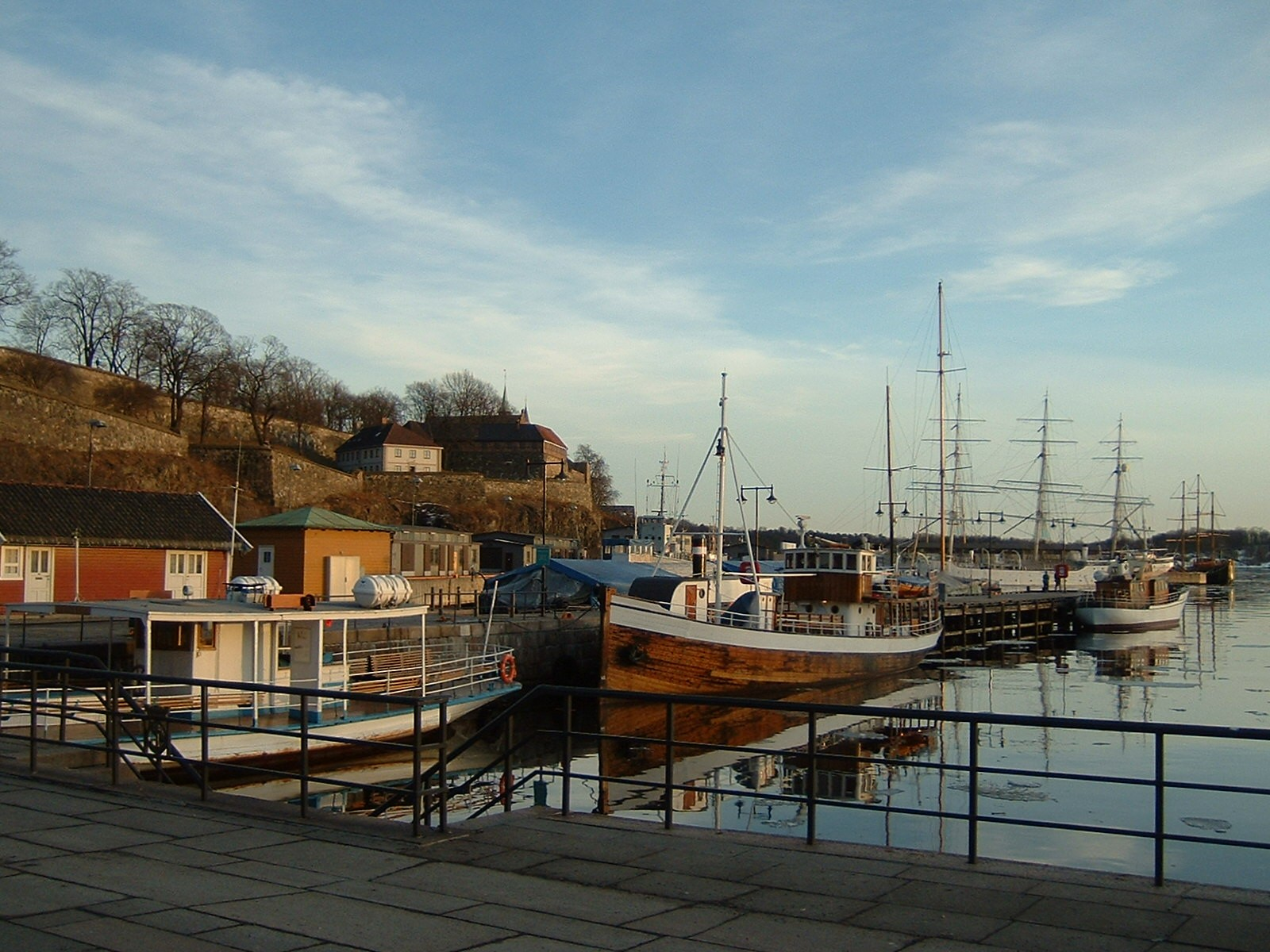 Oslo harbour in March, 2003 - own photograph